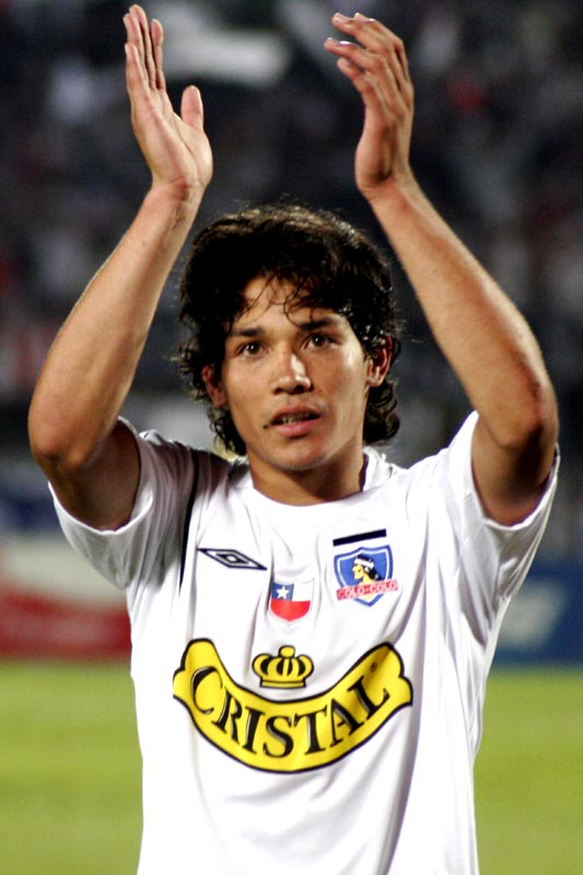 Matías Fernández, in the final of the 2006 Clausura Tournment of the Chilean football league, between Colo-Colo and Audax Italiano